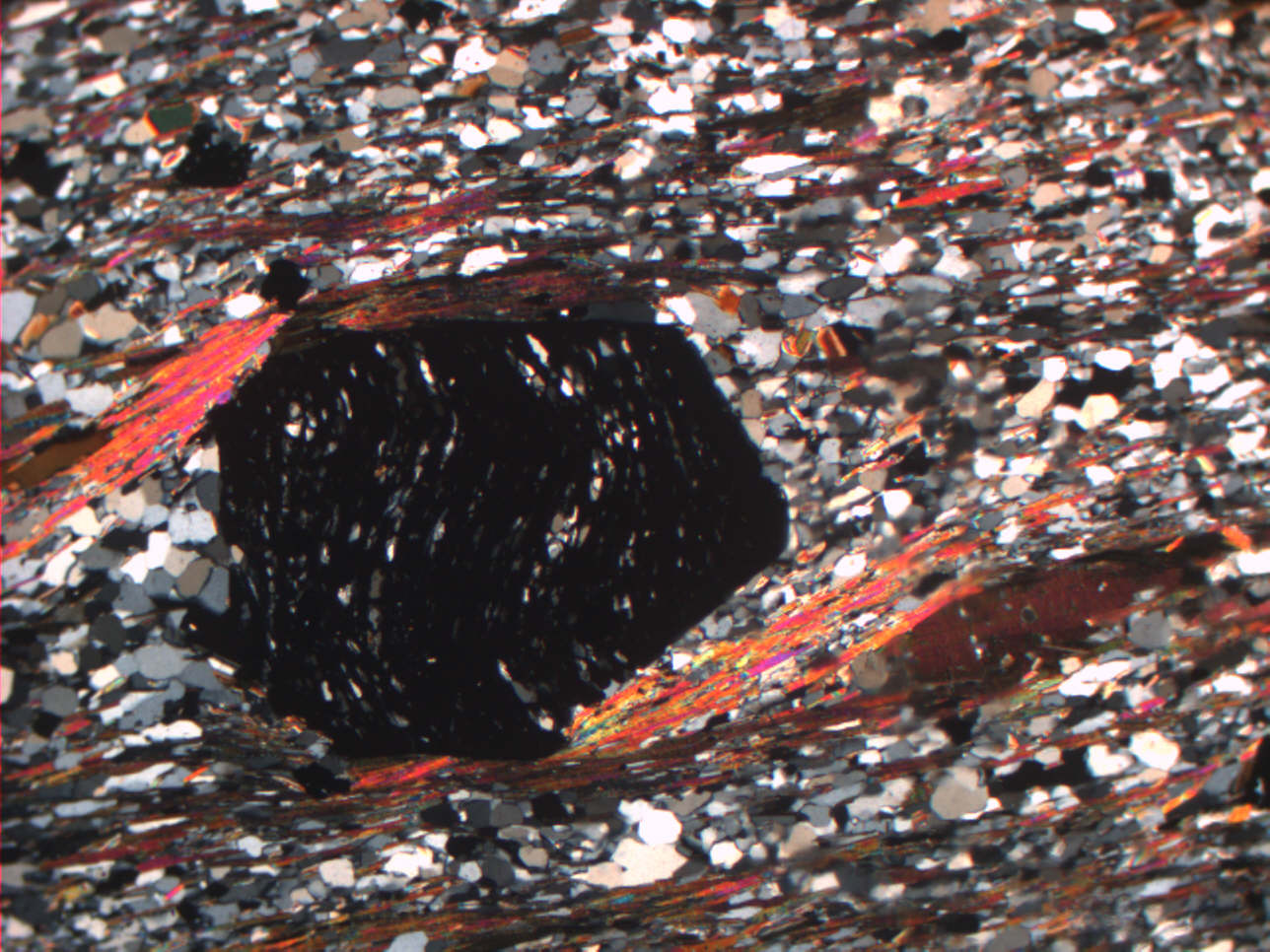 Thin section image of Garnet Mica Schist from Salangen, Norway. showing the strong strain related to fabric of schist. The black crystal is garnet, the high order coloured strands are muscovite mica, with the brown crystals are biotite mica. The grey and white crystals are quartz and (limited) feldspar. The 'S' of pale colour within the garnet. shows the former crenulation cleavage of the schist during an earlier stage of deformation.